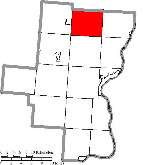 Map of the municipal and township boundaries of Gallia County, Ohio, United States, as of the 2000 census, with the location of Morgan Township highlighted. Township borders are shown only in unincorporated areas in order to differentiate incorporated and unincorporated areas more clearly.